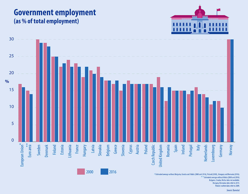 Chart comparing the Government employment as % of total employment in EU in 2000 and 2018